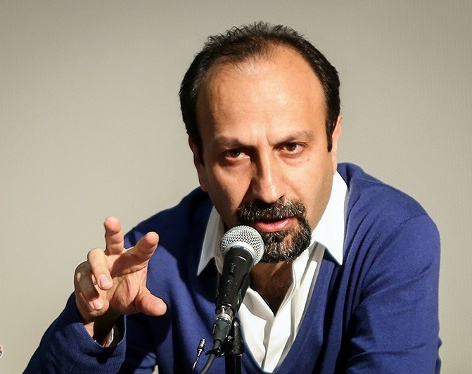 Asghar Farhadi in Fajr International Film Festival